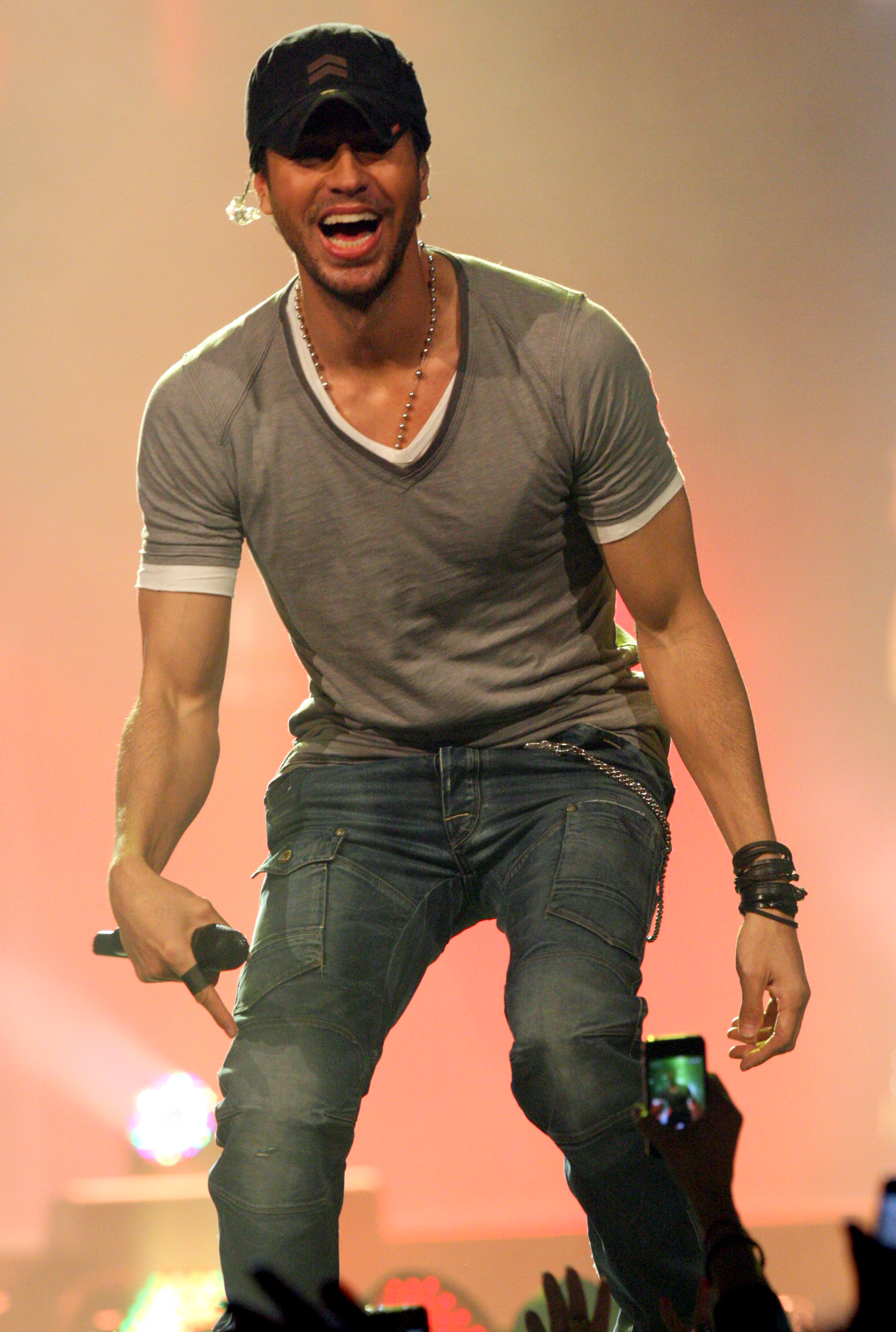 Enrique Iglesias Euphoria World Tour 2011.